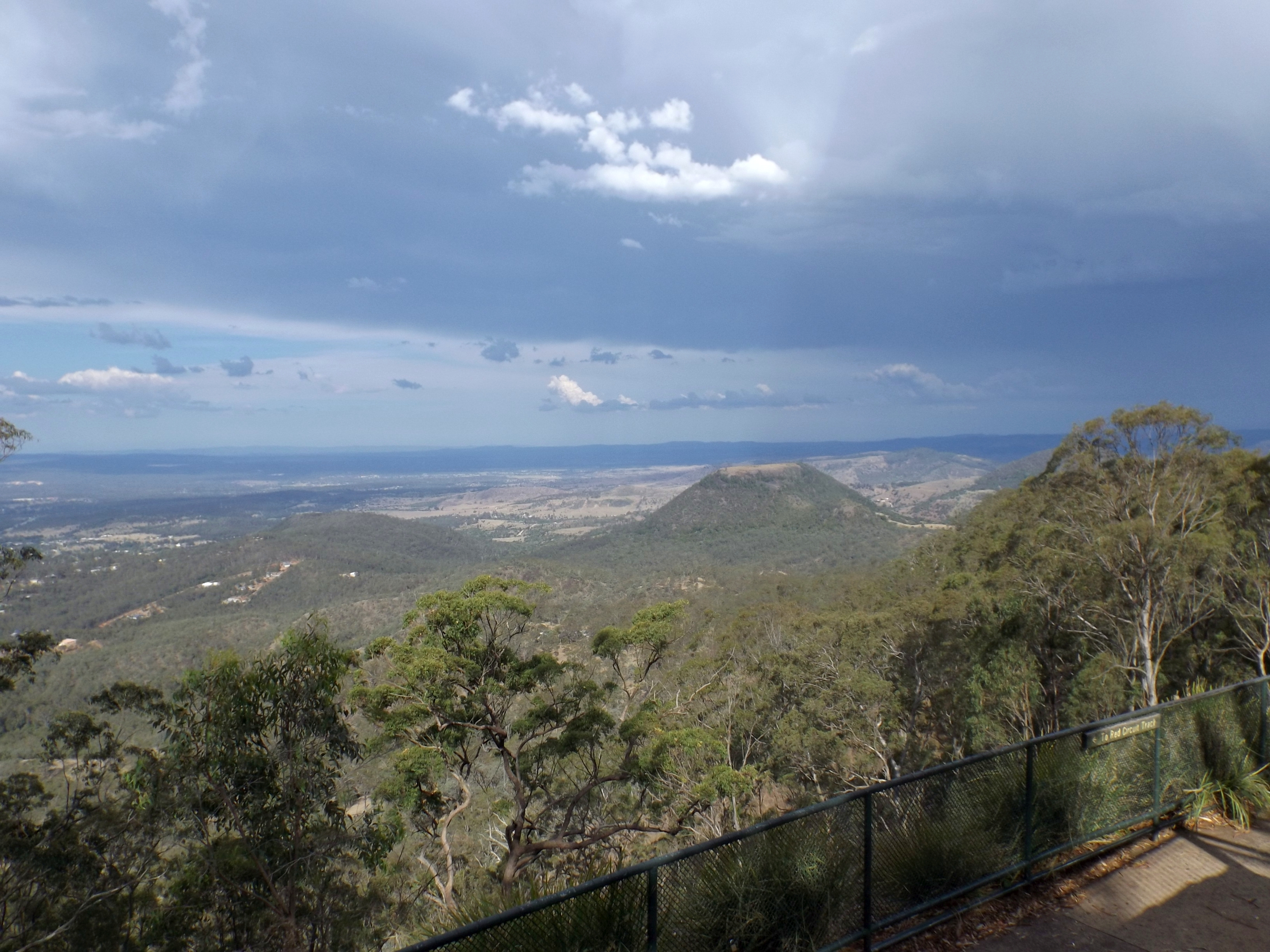 Photo of view southeastwards over Lockyer Valley from Picnic Point at Rangeville, Toowoomba, Queensland, Australia.